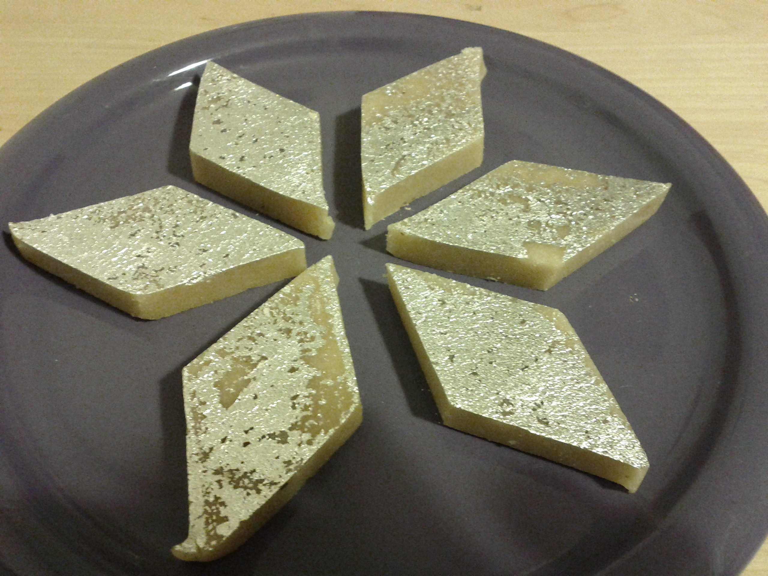 Side view of a plate with 6 Kaju katli desserts